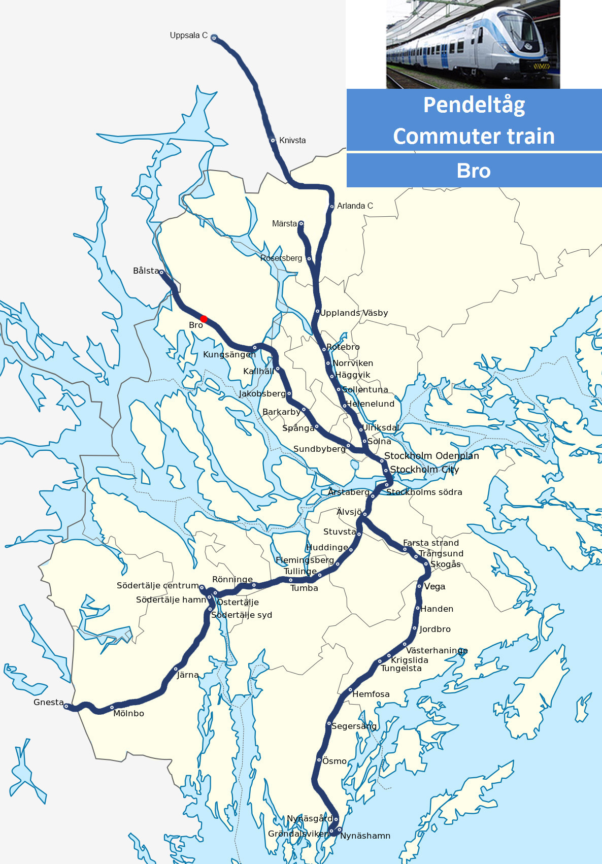 Bro station map